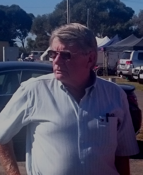 Colin Bond in 2016 at Mallala Motor Sport Park.